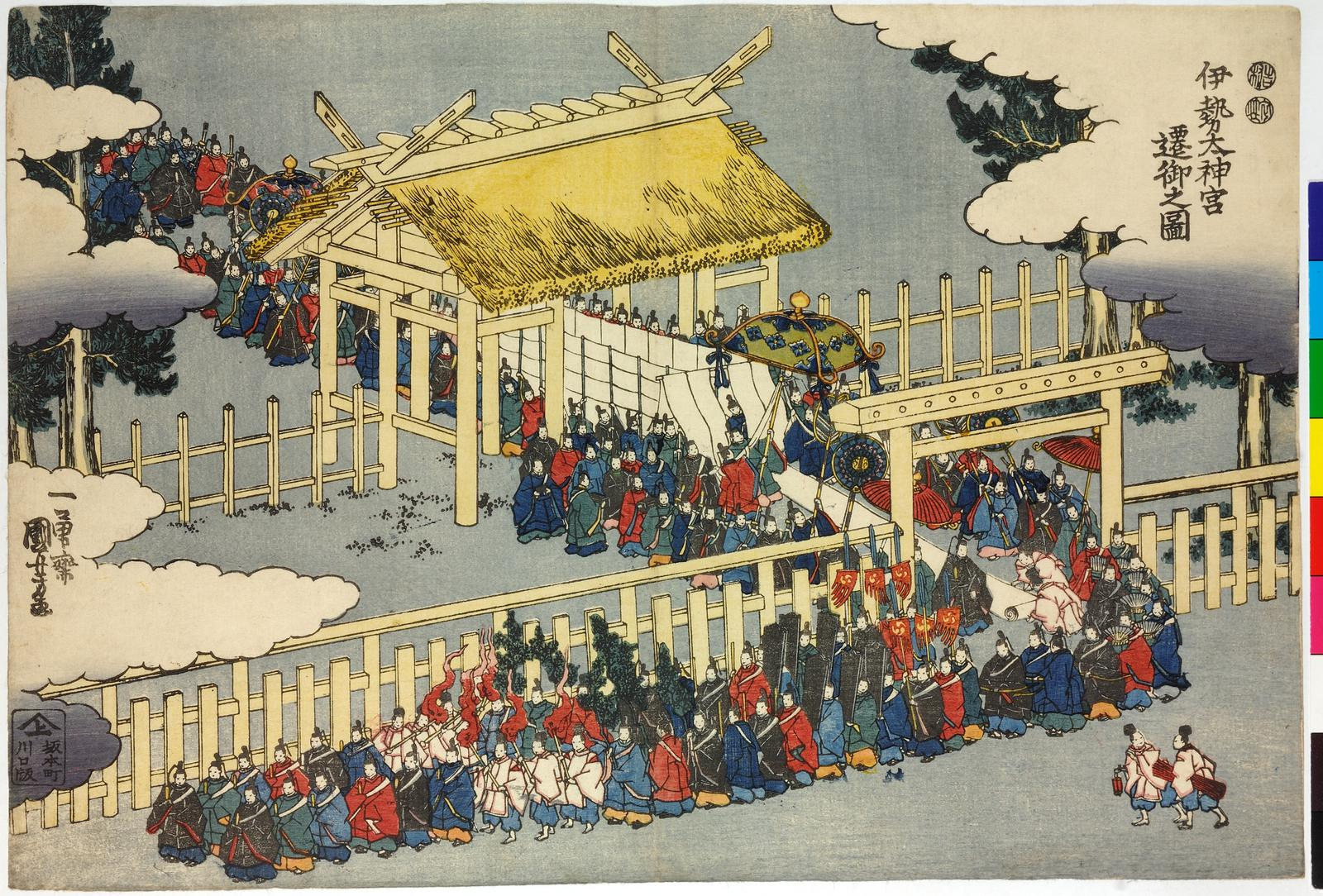 Woodblock print, oban yoko-e. Ceremony during the rebuilding of the Grand Shrine of Ise, procession of shrine priests bearing torches.